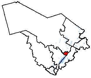 Map of the Quebec federal electoral district of Trois-Rivières